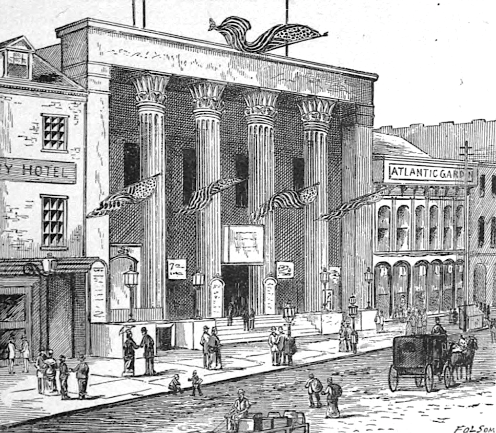 Bowery Theatre (as rebuilt in 1845 after a fire), 46 Bowery, New York.